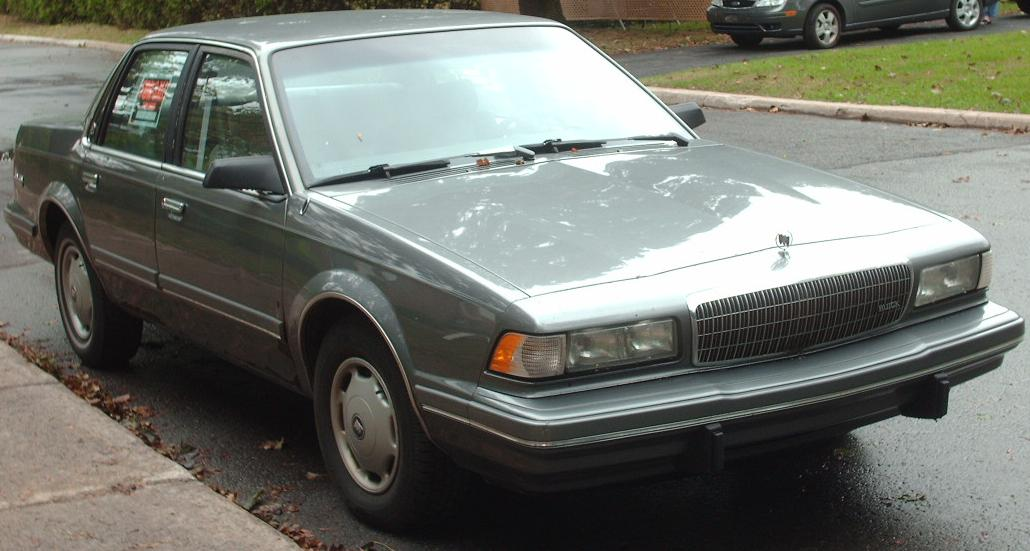 1991-1993 Buick Century photographed in Montreal, Quebec, Canada.